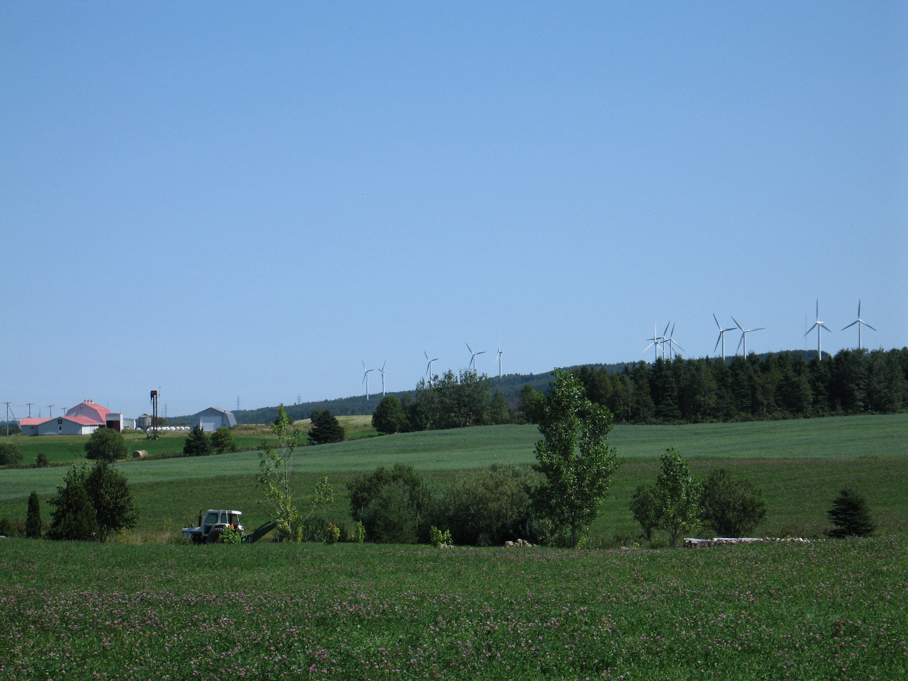 Wind farm in Saint-Ulric, west of Matane, Quebec.